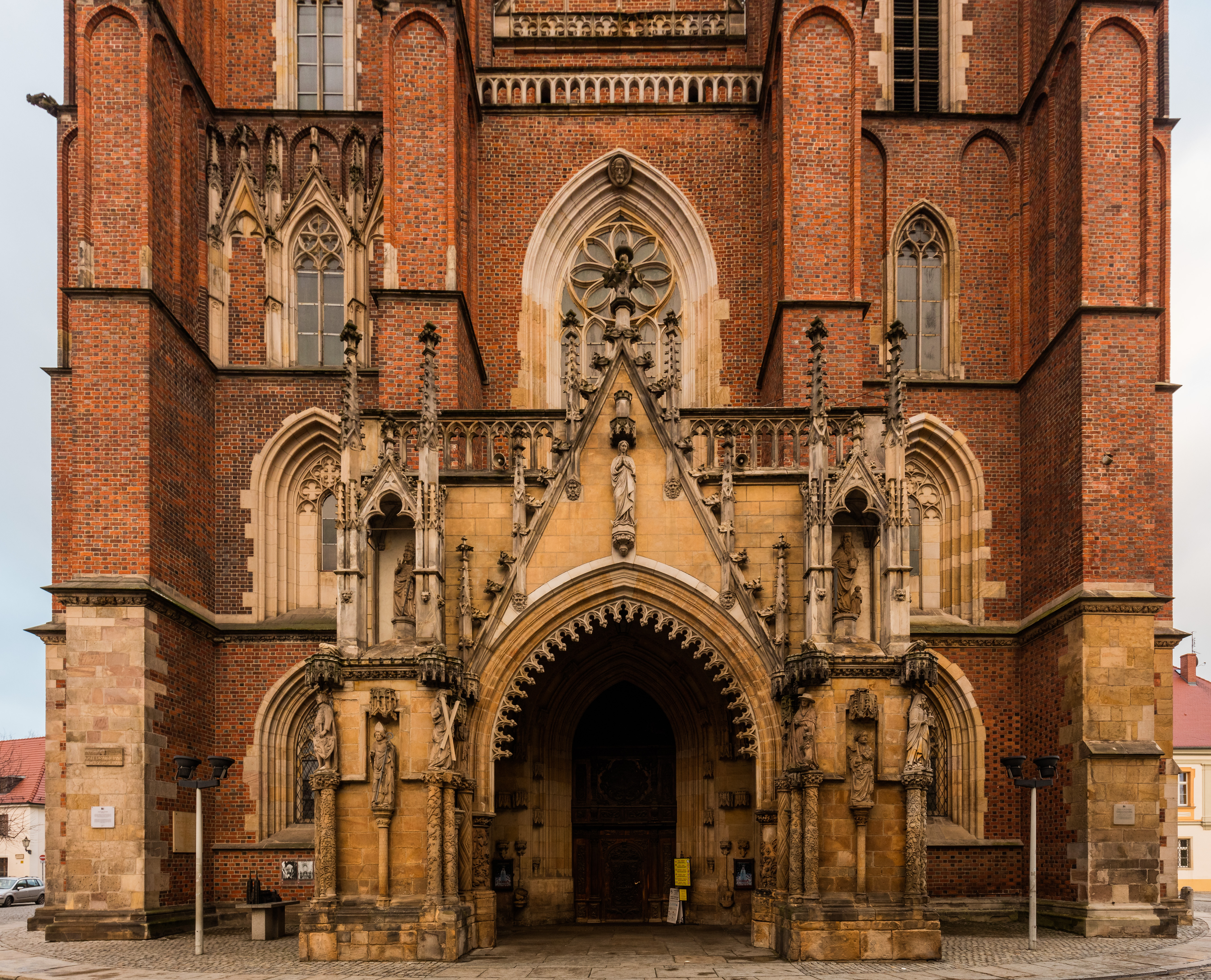 St. John Cathedral Church, Wrocław, Poland